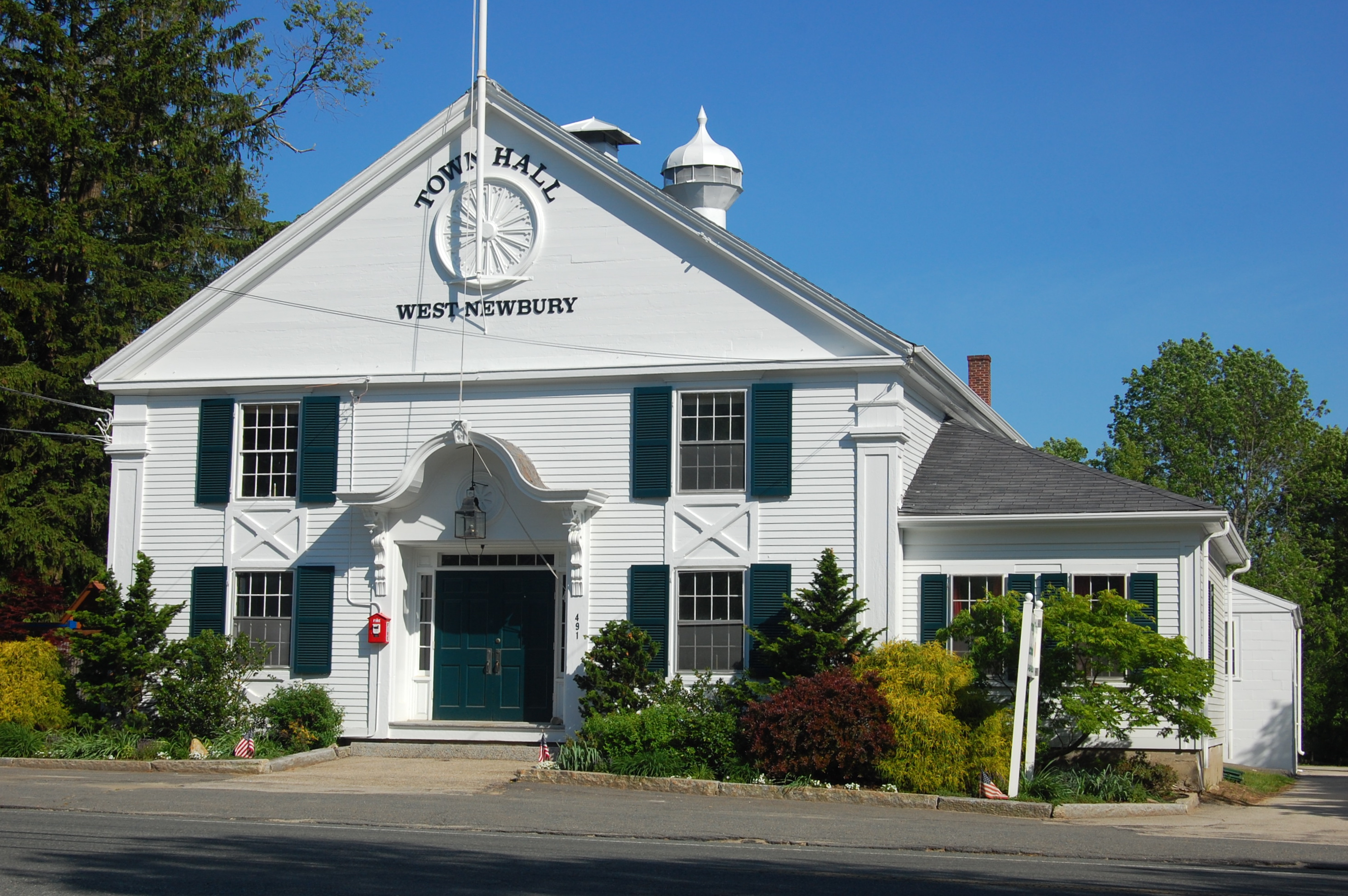 Town Hall of West Newbury, Massachusetts